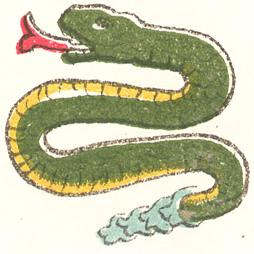 The Aztec day sign coatl (snake).